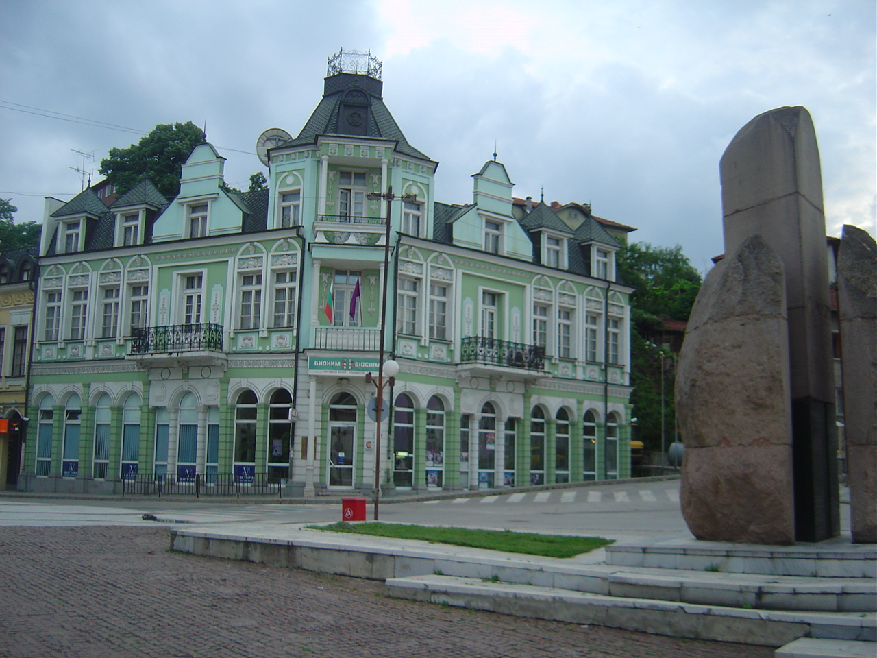 Biochim Bank, Lovech